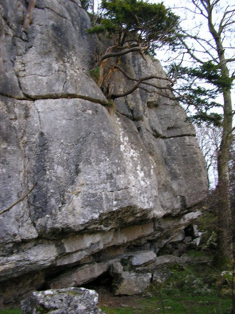 Warton Pinnacle Crag One of the more popular climbing grounds on Warton Crag, home to some good mid-grade climbs and some desperate bouldering around the overhangs